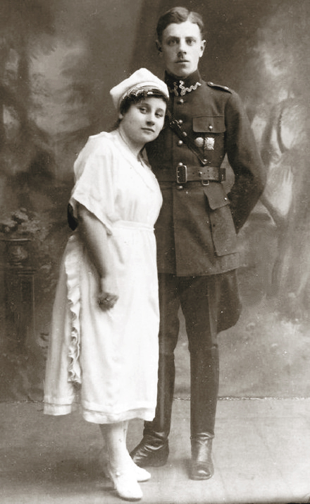 Kazimierz Tumidajski (1897-1947) - Colonel of the Polish Army with his wife Janina